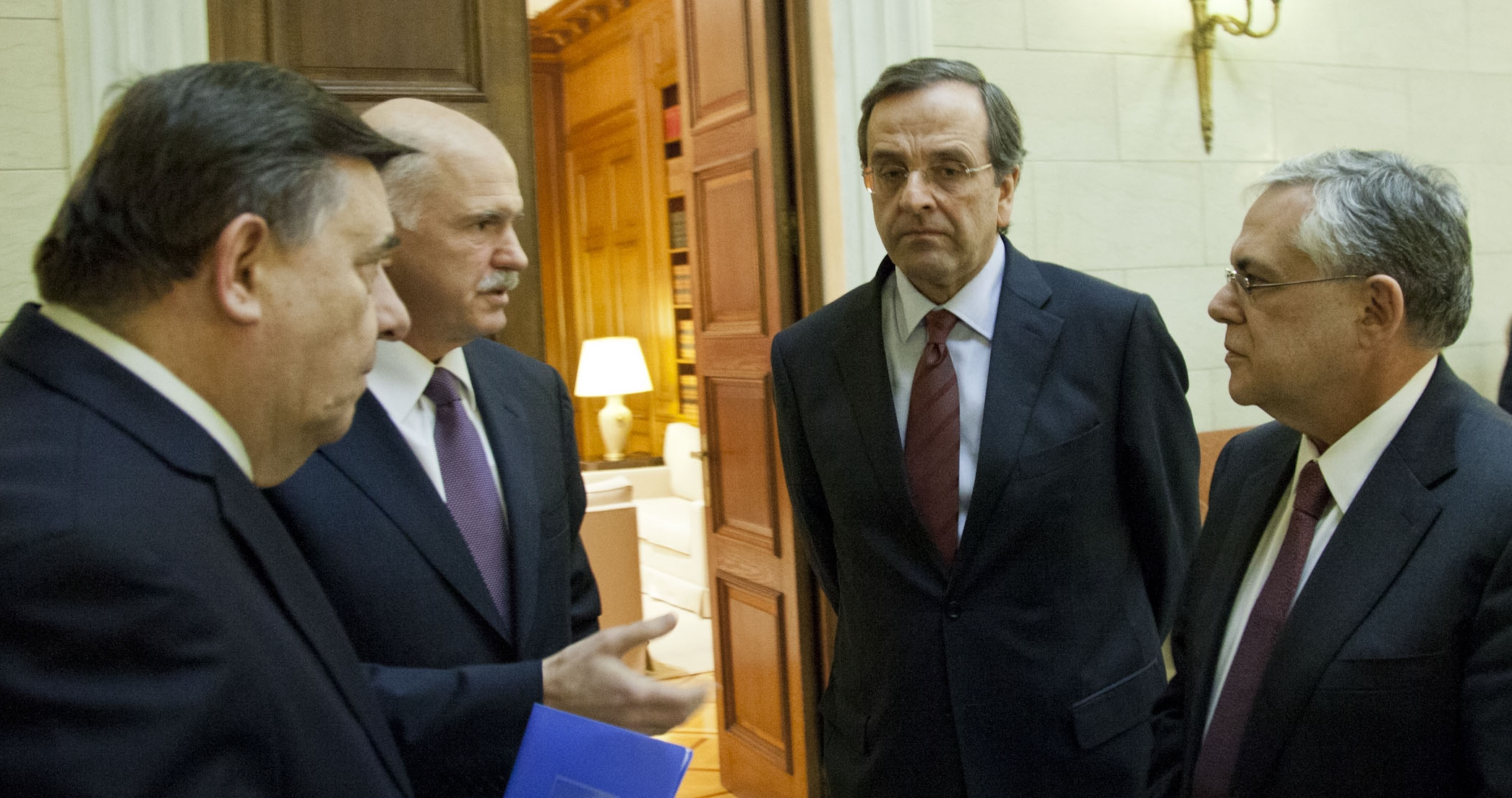 Greek Prime Minister Lucas Papademos meeting with government coalition party leaders. From left to right: Georgios Karatzaferis, George Papandreou, Antonis Samaras, Lucas Papademos